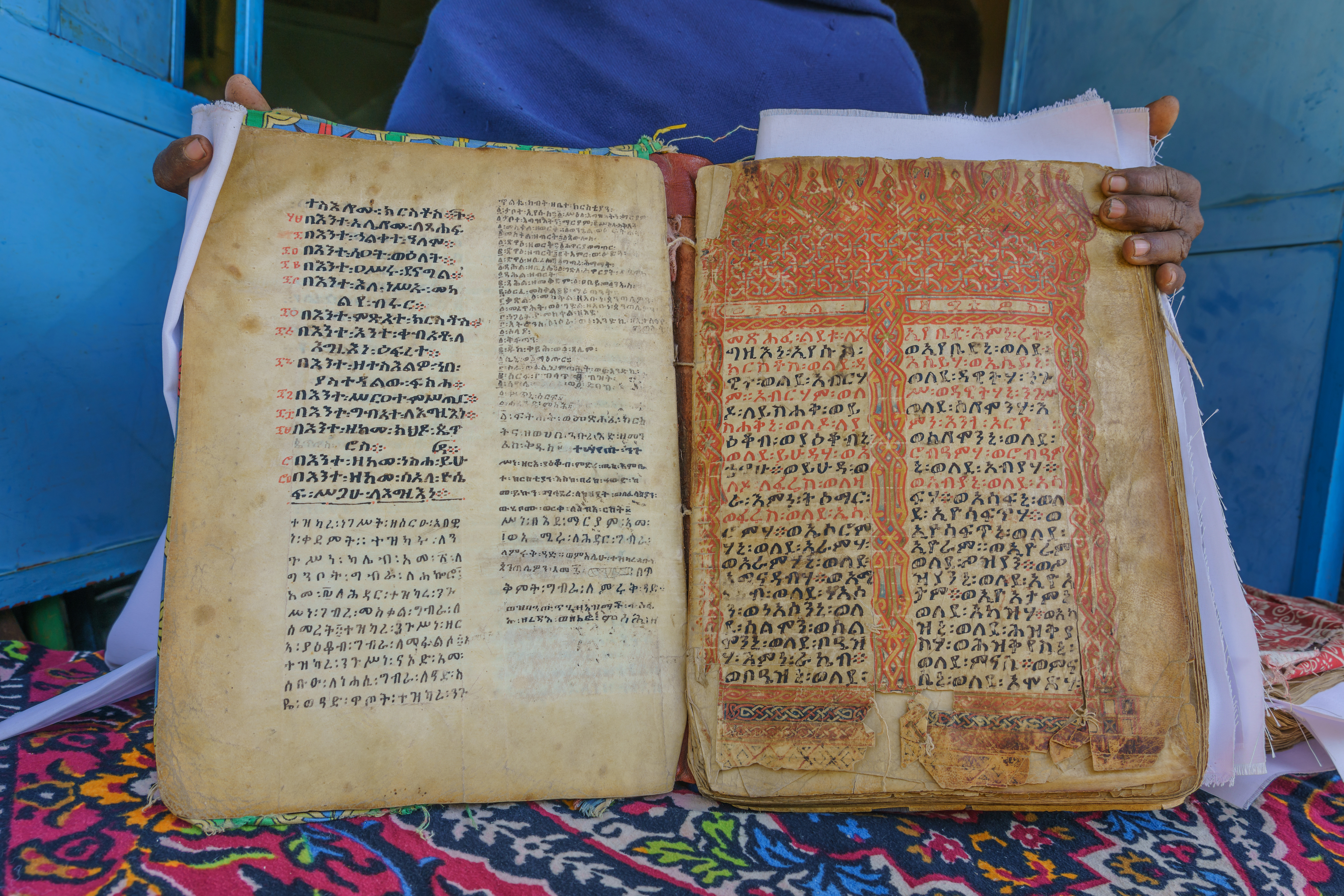 Abba Pentalewon Monastery in Aksum, Tigray Region, Ethiopia